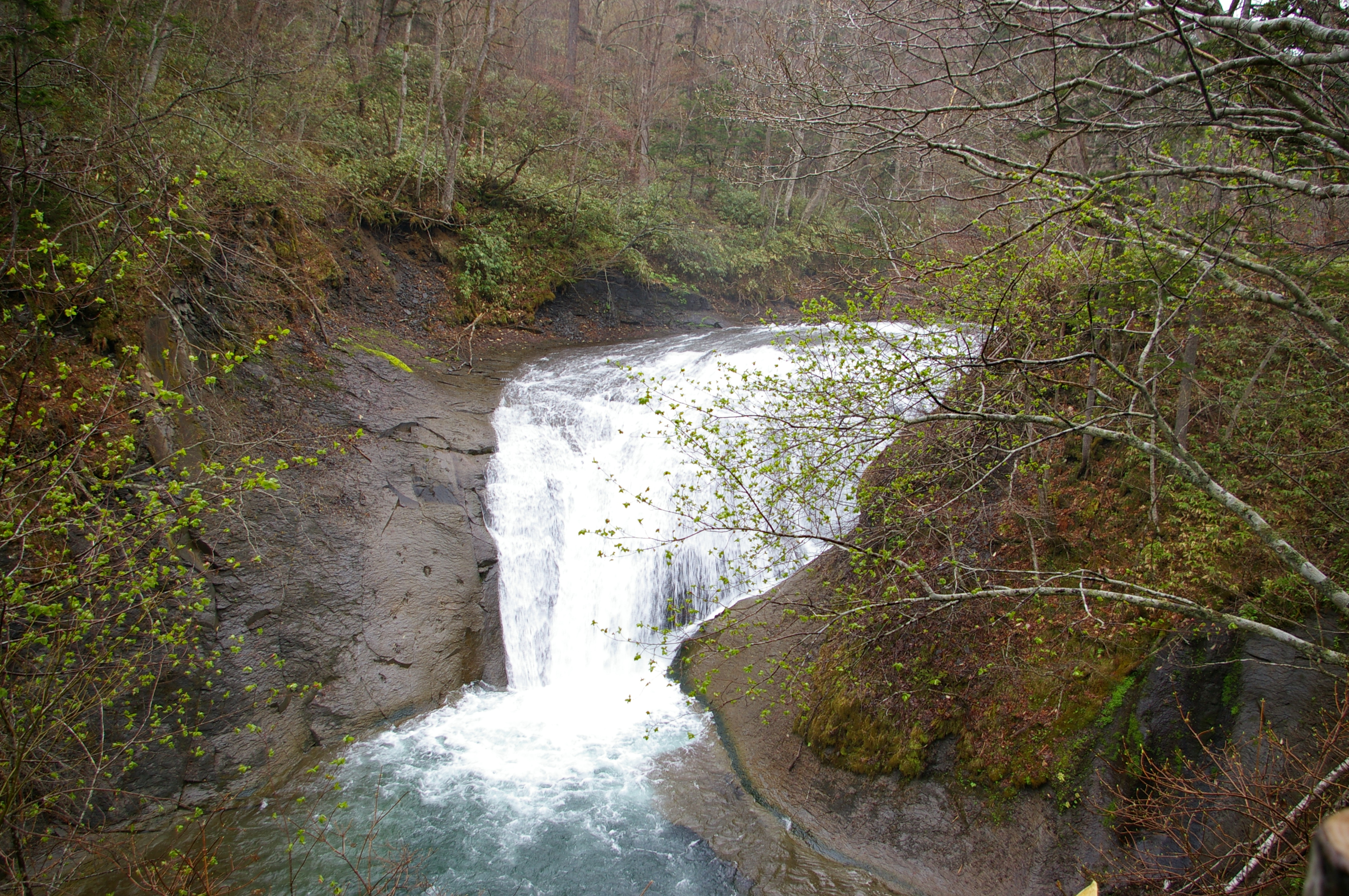 Hakusen Fall (Hakusen means White Folding Fan), Rarumanai River (tributary to Izari River), Eniwa, Hokkaido